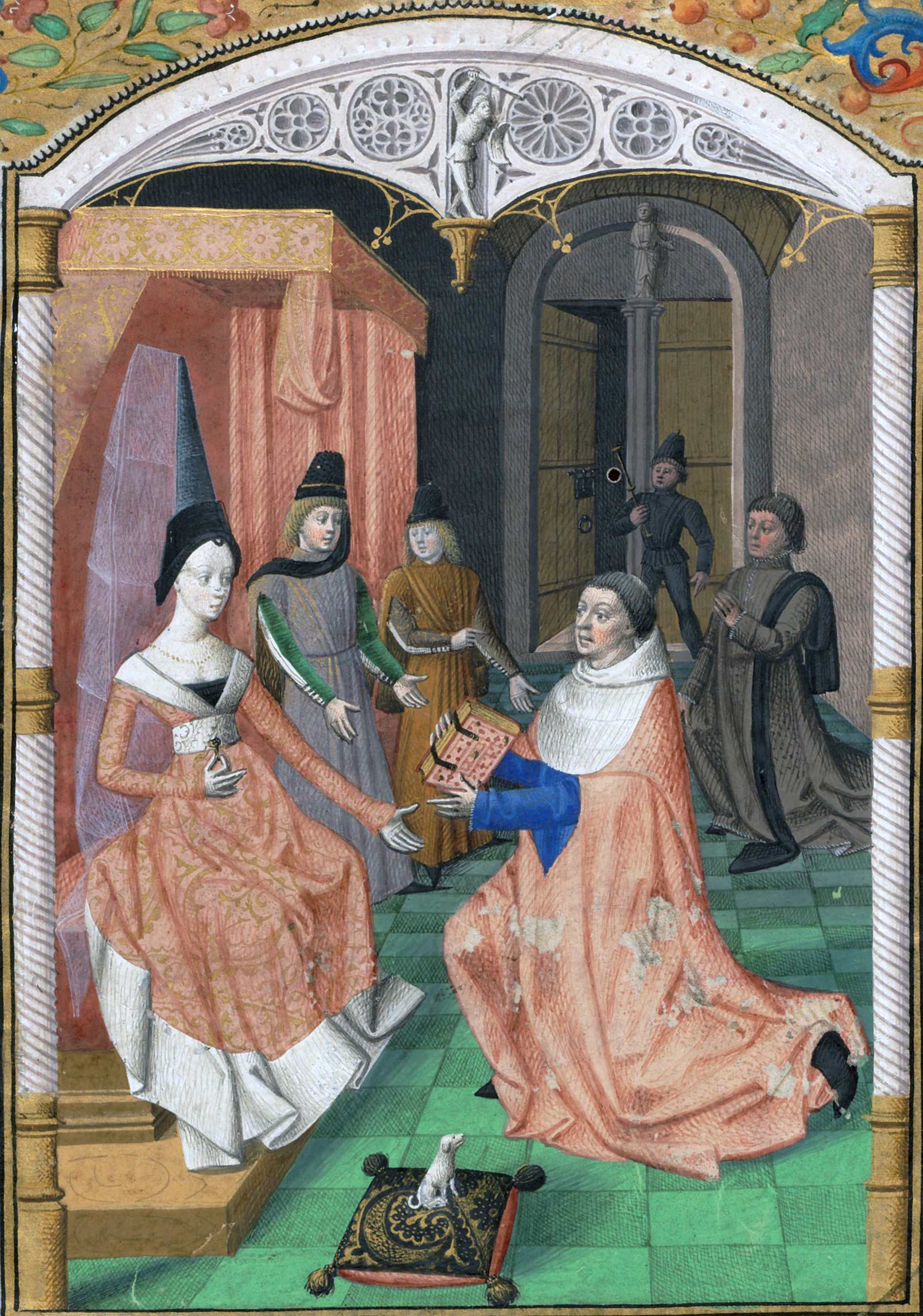 Dedication miniature, folio 1 of a manuscript of Rhetorica by Guillaume Fichet : Guillaume Fichet offers his book to Yolande of France, Duchess of Savoy